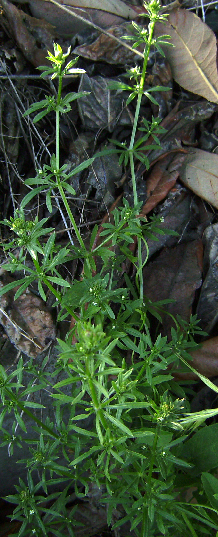 Galium aparine flowering, Castelltallat, Catalonia